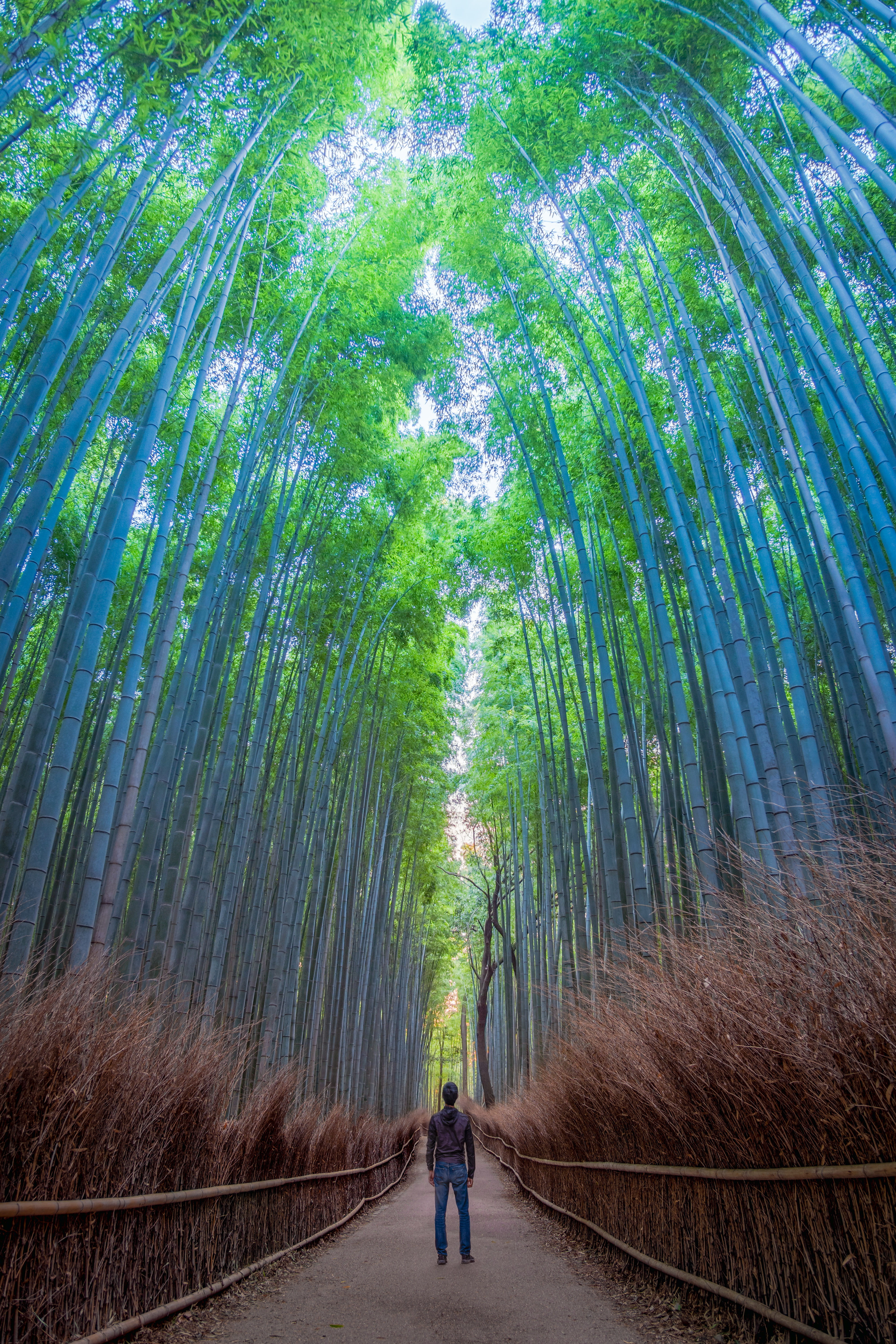 Amazed by the height of the bamboo trees, in Arashiyama, Kyoto, Japan